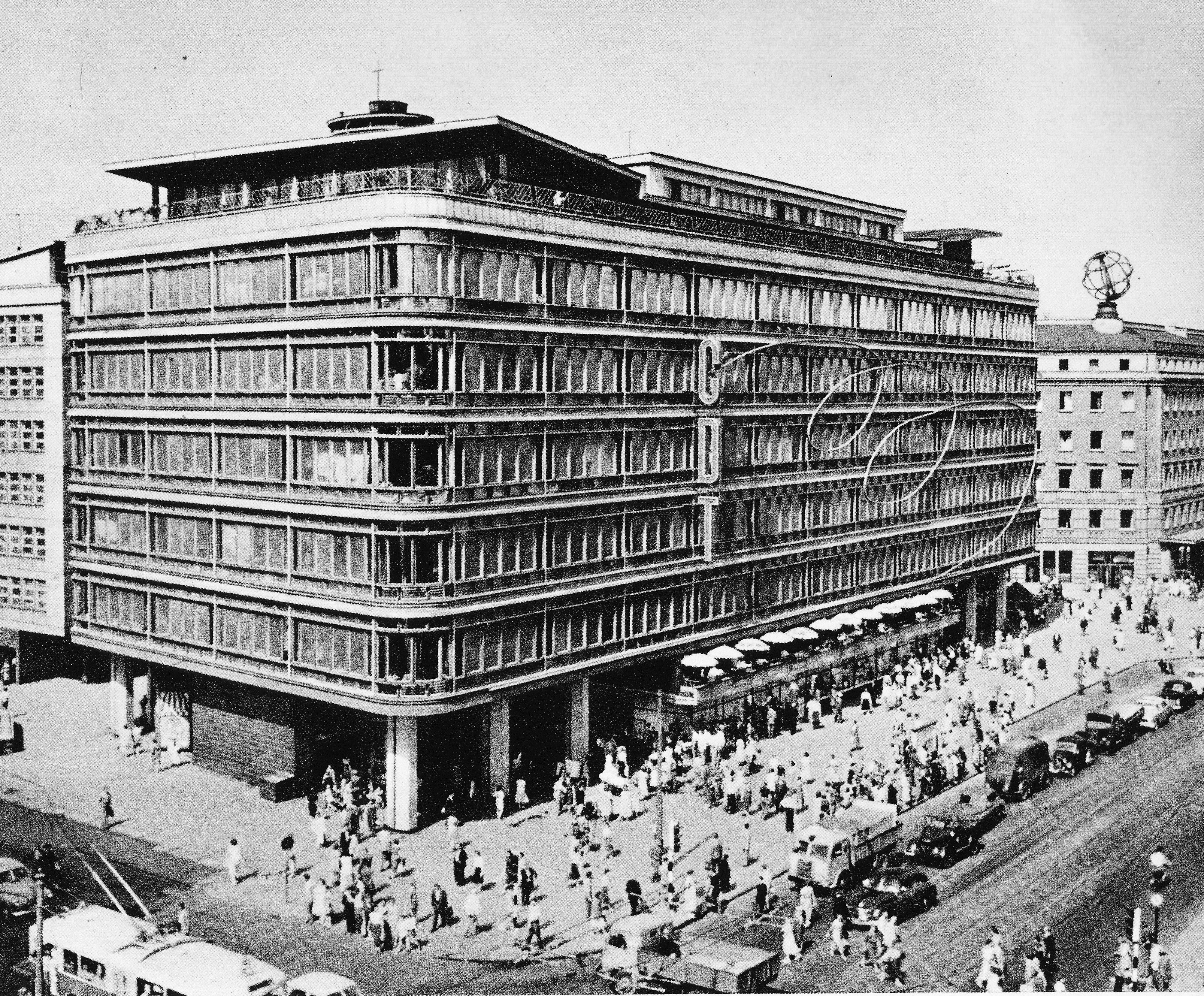 Central Shopping Mall in Warsaw